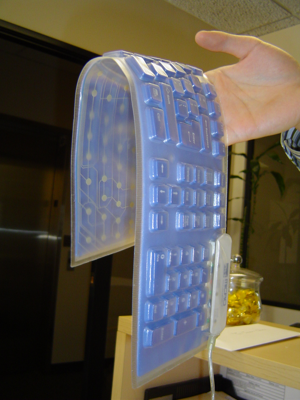 Foldable keyboard by Micro Innovations. Photographed and uploaded by Geographer.